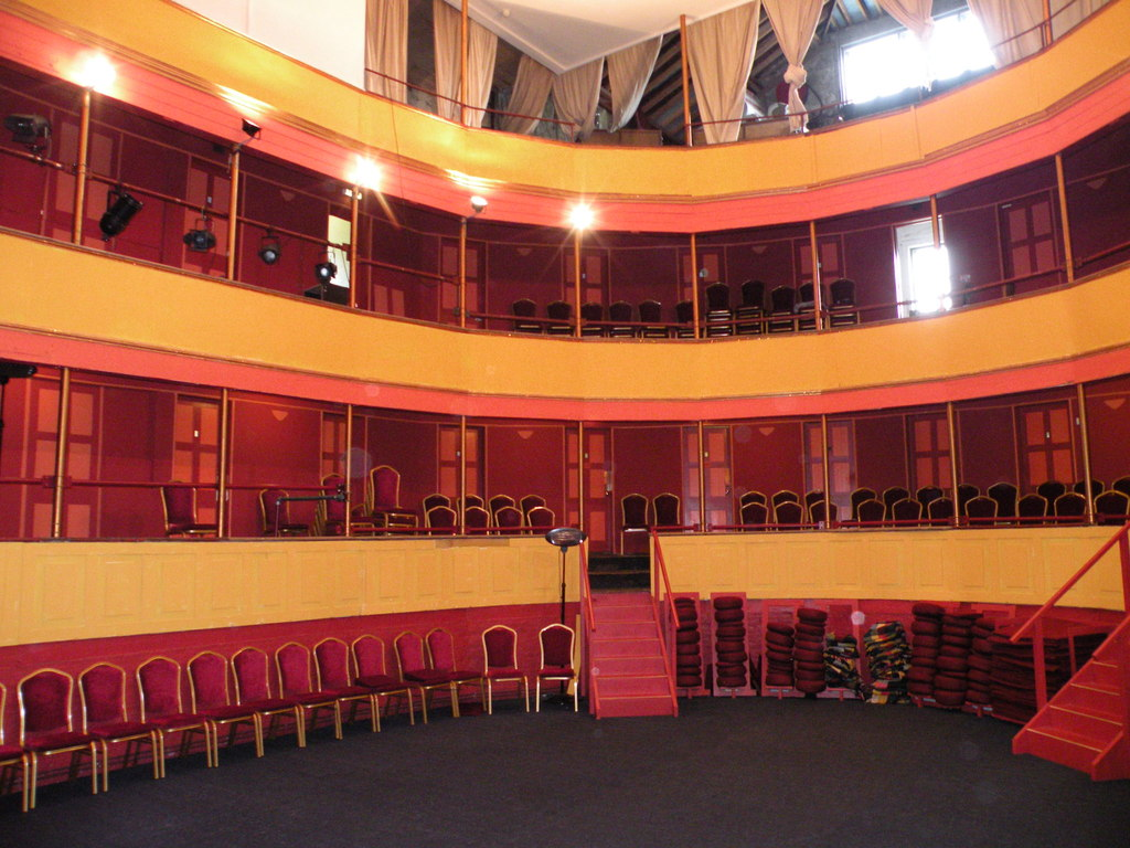 Inside the Festival Theatre (1)